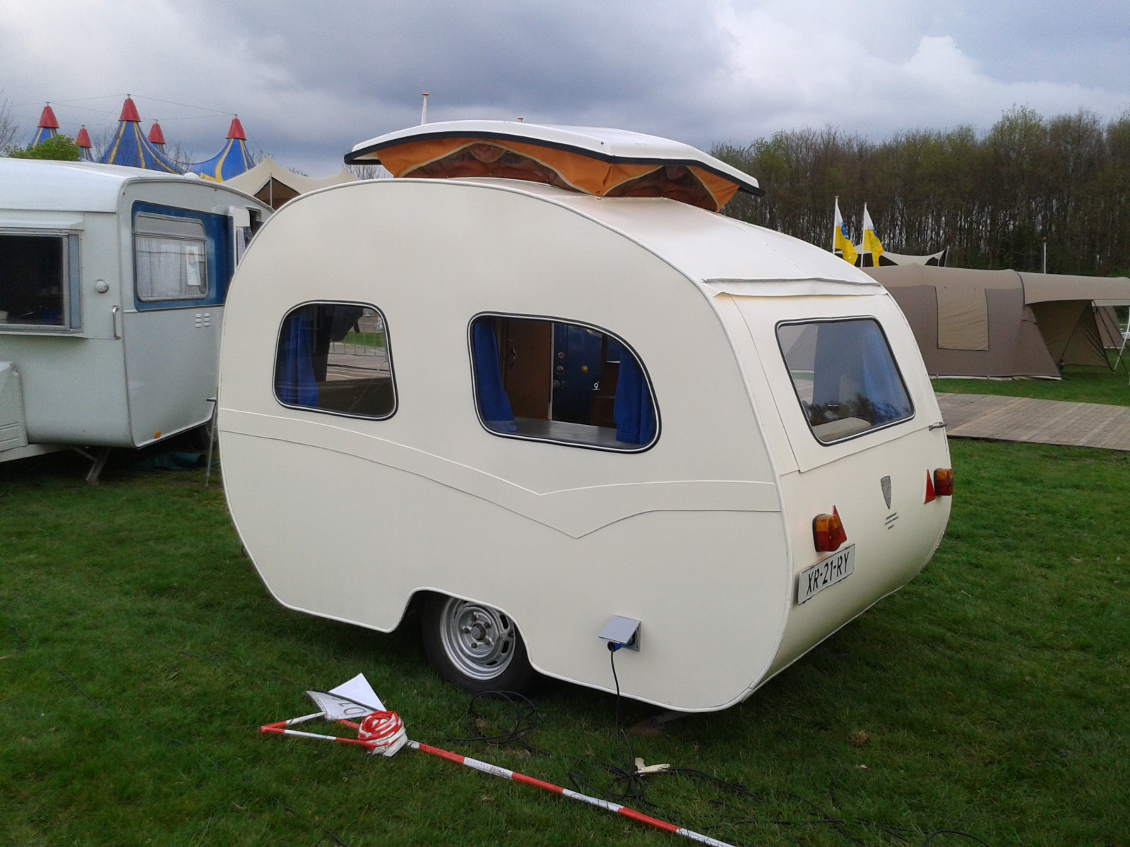 caravan made by Otten 1961